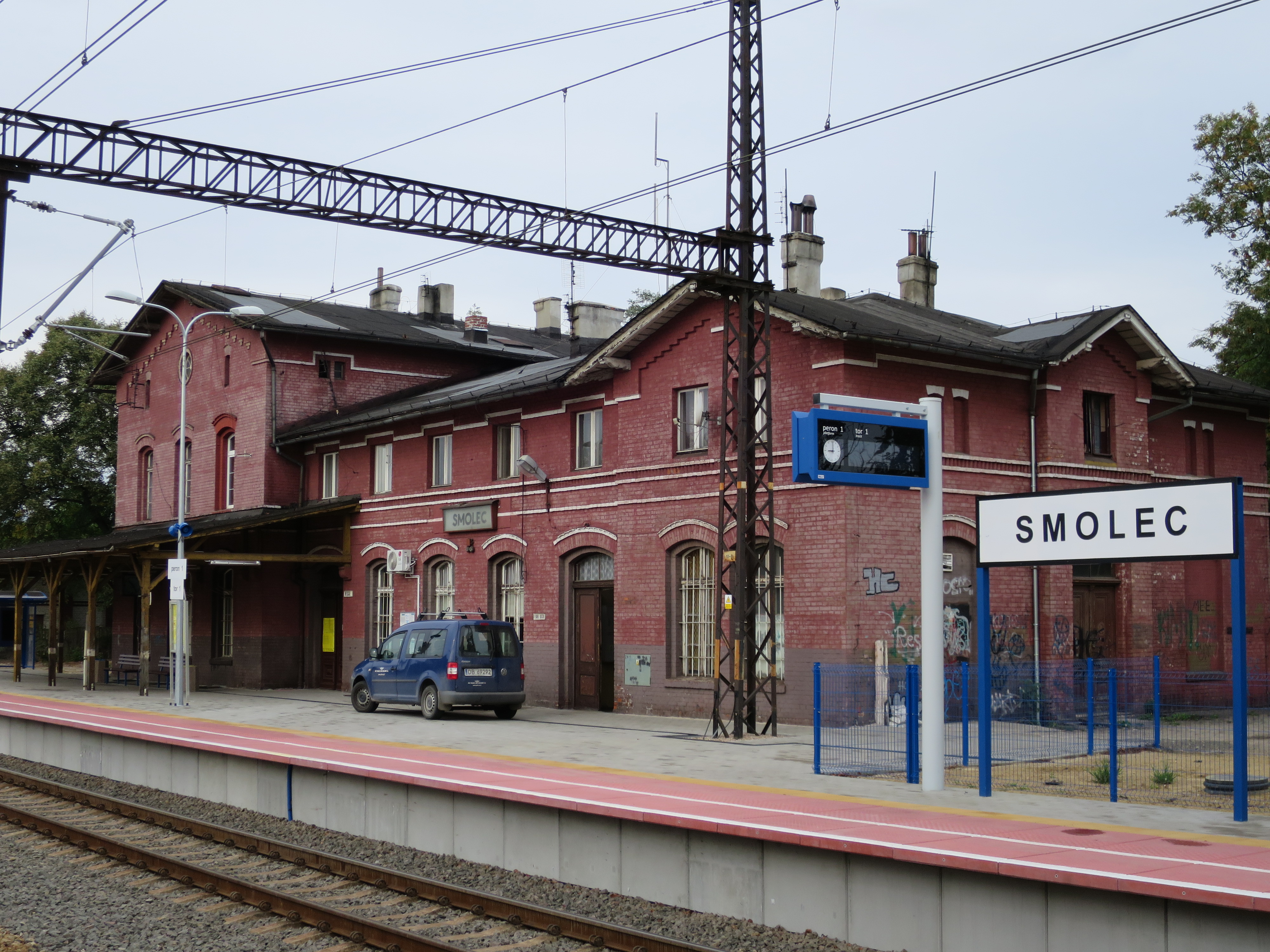 Smolec This photo was taken during Railway Wikiexpedition 2015 set up by Wikimedia Polska Association in cooperation with Fundacja Grupy PKP.You can see all photographs in category Wikiekspedycja kolejowa 2015.